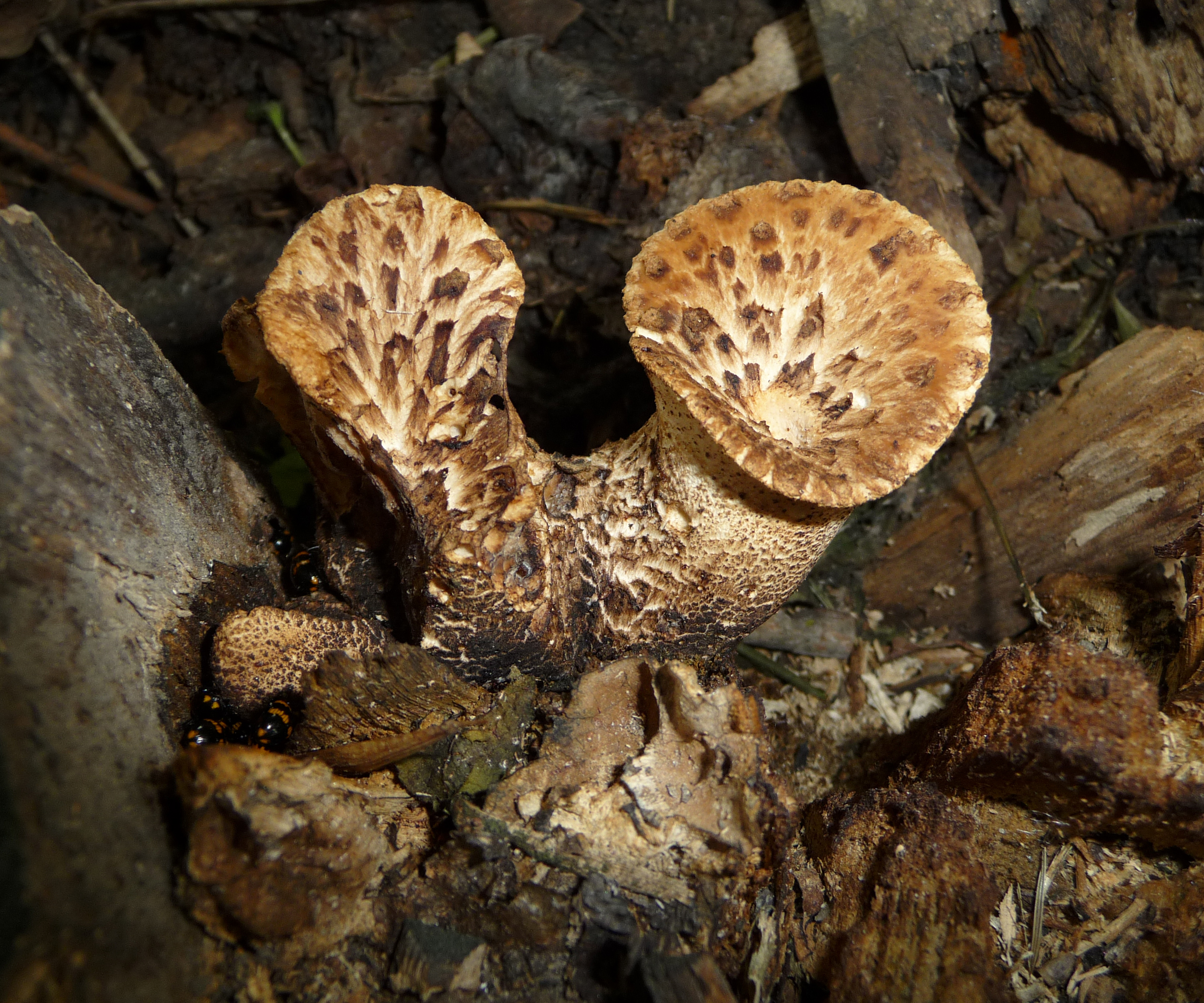 Immature bracket fungi Dryad's saddle Polyporus squamosus and beetles Diaperis boleti. Ukraine.